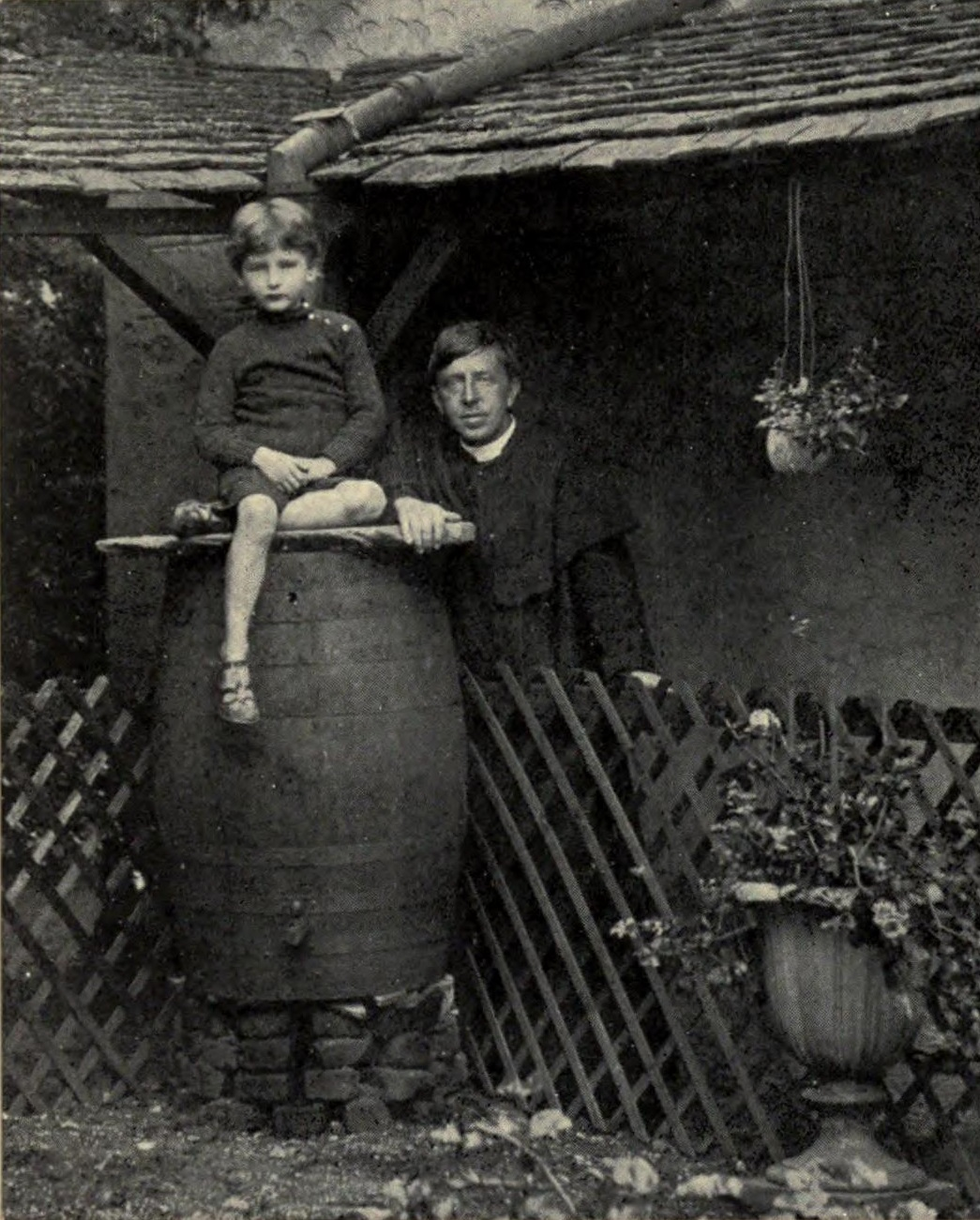 Robert Hugh Benson at Hare Street House